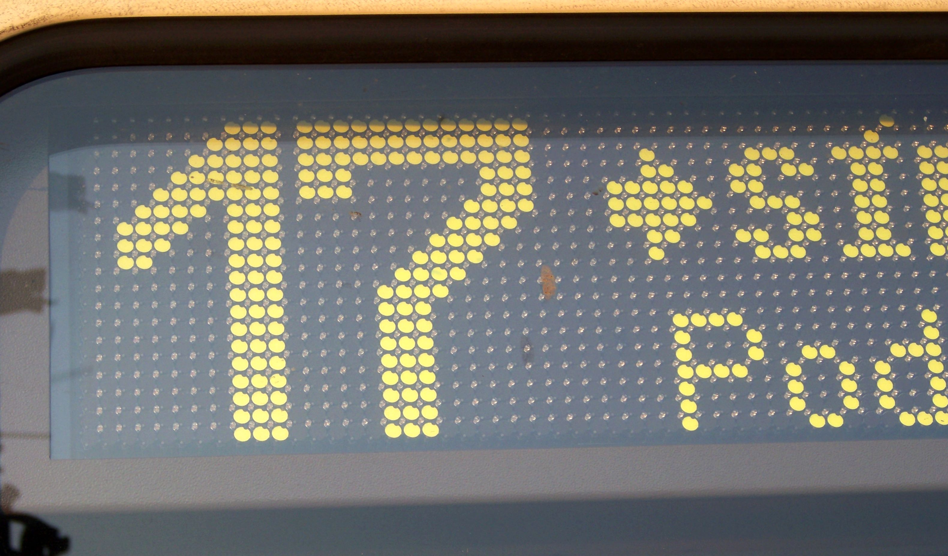 Prague, the Czech Republic. Frontal tram display.